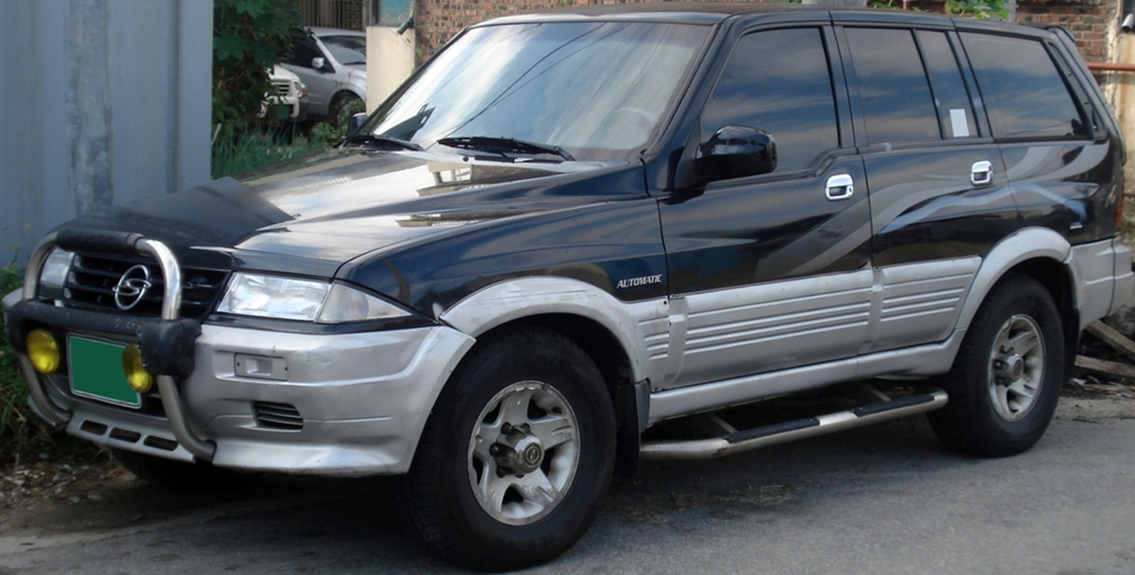 SsangYong Musso